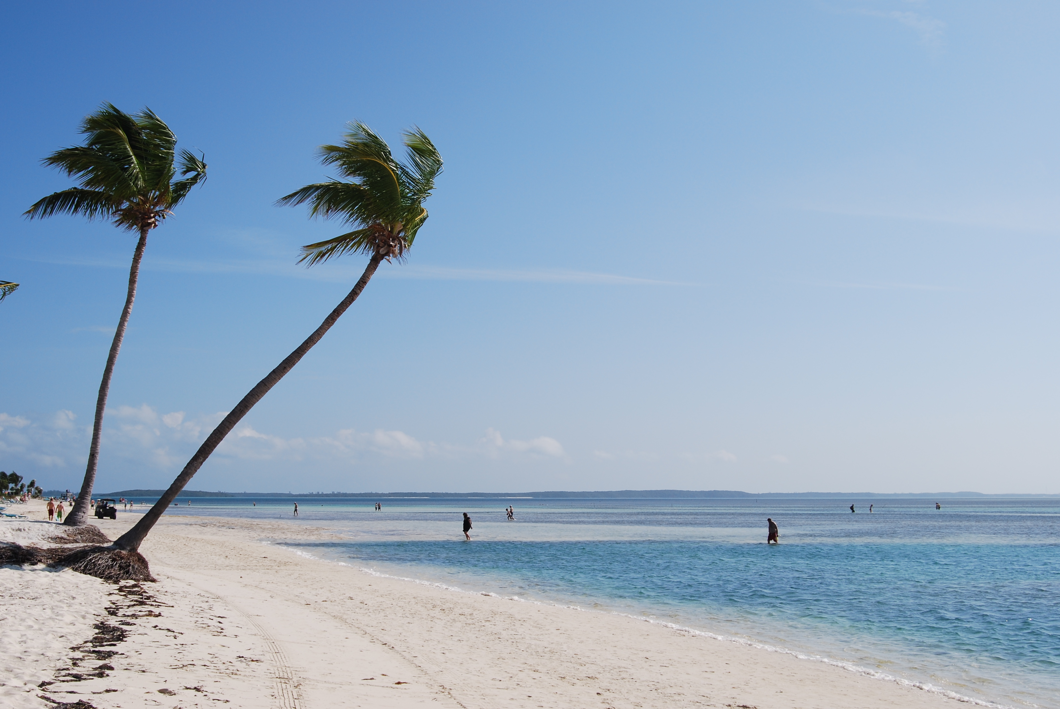 A beach on Coco Cay, an island leased by Royal Caribbean International, in the Bahamas.